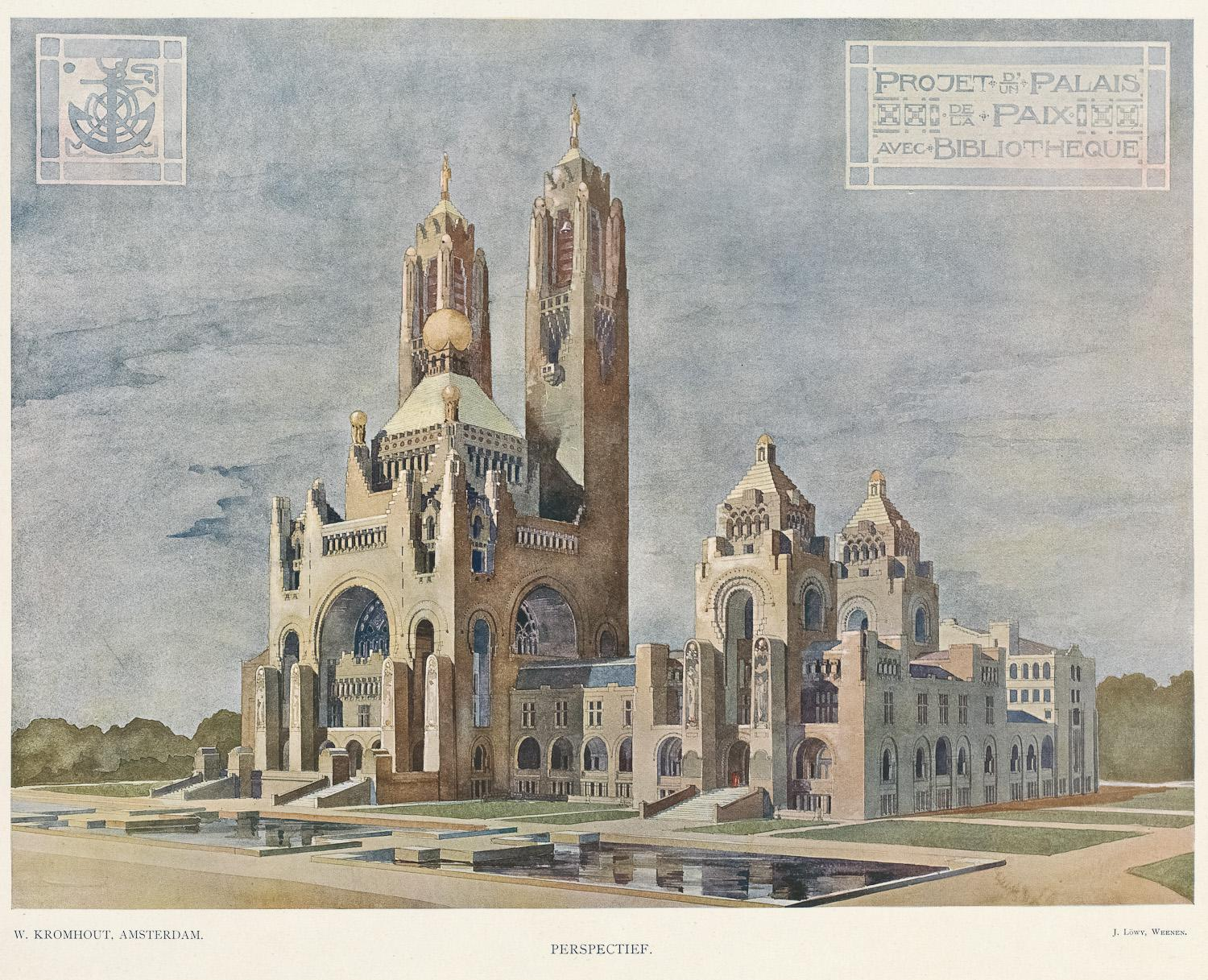 Competition entry for the Peace Palace in The Hague by architect Willem Kromhout